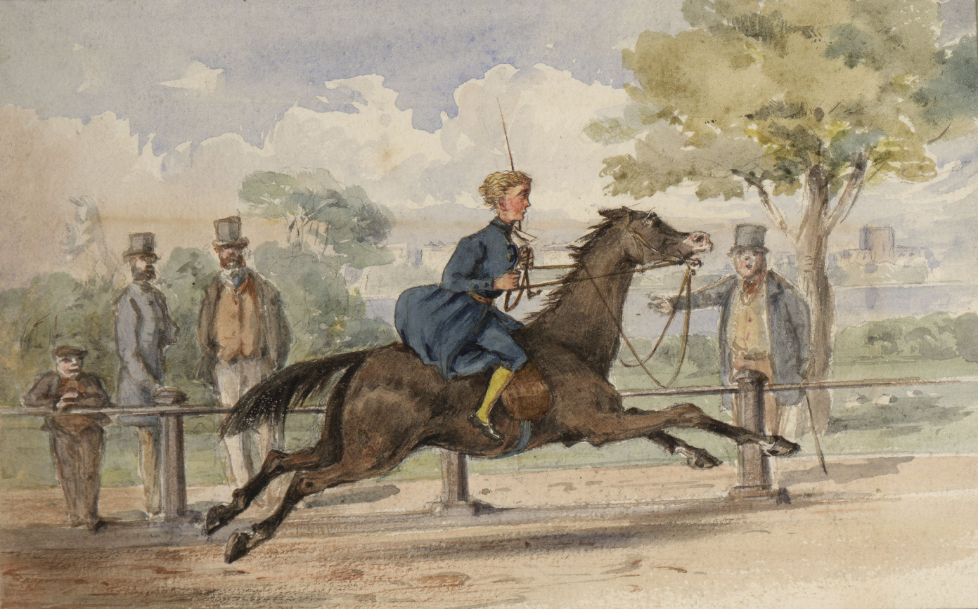 Examples of artwork on a variety of subjects and in a variety of styles by Francis Elizabeth Wynne from a sketchbook (ca. 420 drawings): mixed media, including watercolour, wash and, pen and ink.